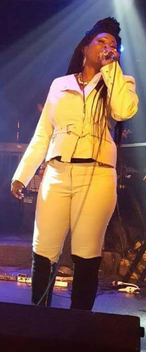 Lady G photographed in Montréal, Quebec, Canada at the Belmont.